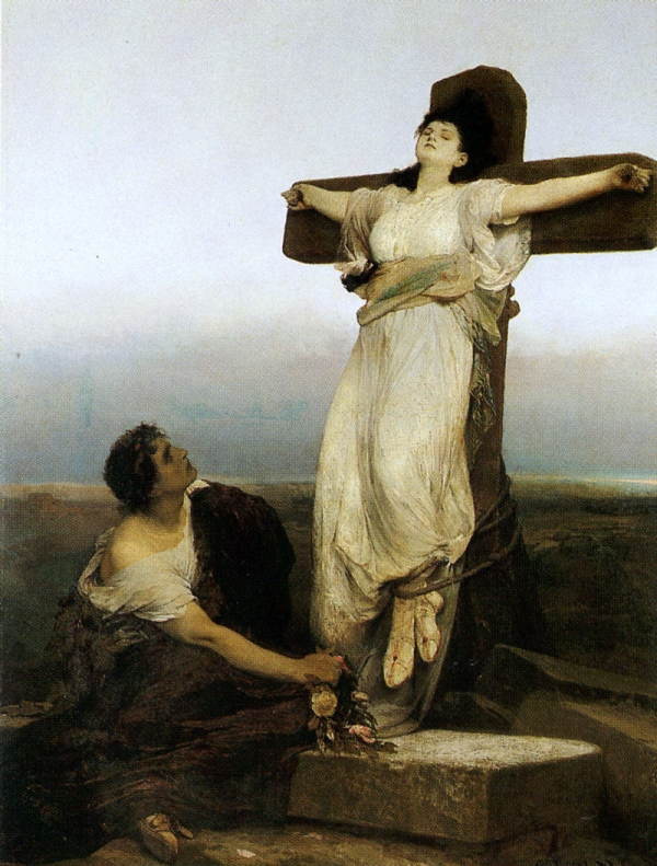 (also called „Crucified Martyress“)